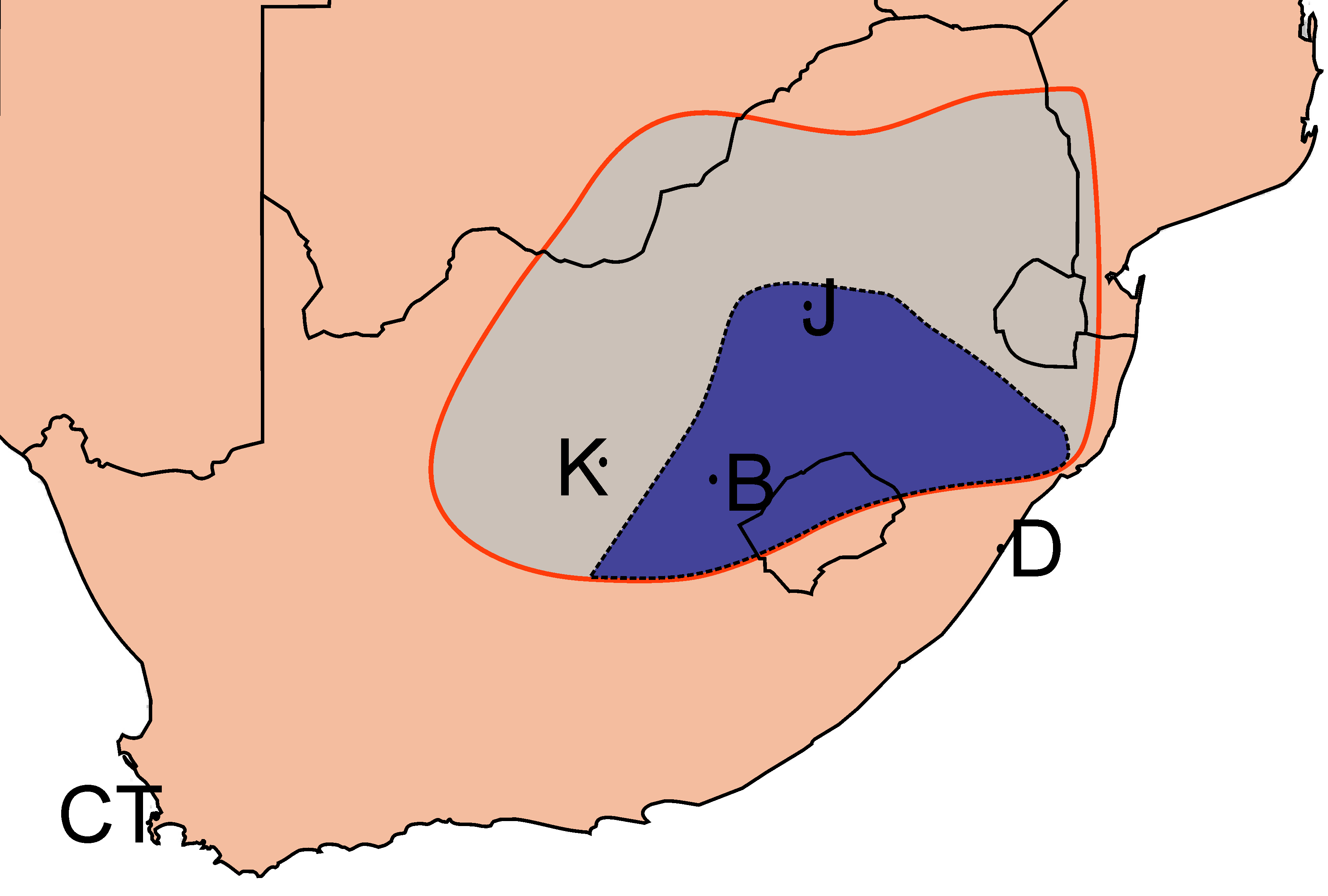 Diagrammatic representation of the relative size and position of the Kaapvaal Craton in relation present-day South Africa.